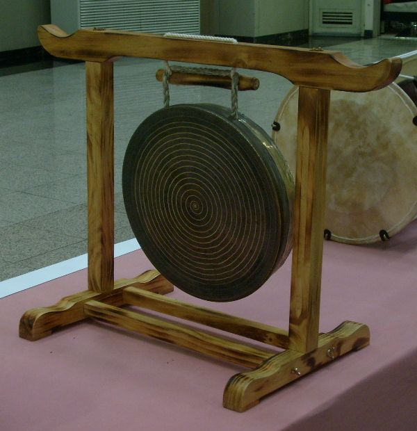 A jing or daegeum, a large Korean gong, at an exhibit at Busan Station, Busan, South Korea